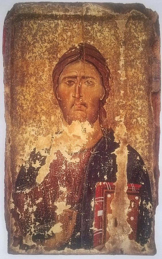 Christ Pantocrator Icon, from Saint Nicholas Church in Marchishta. Byzantine Museum, Kastoria, West Macedonia, Greece